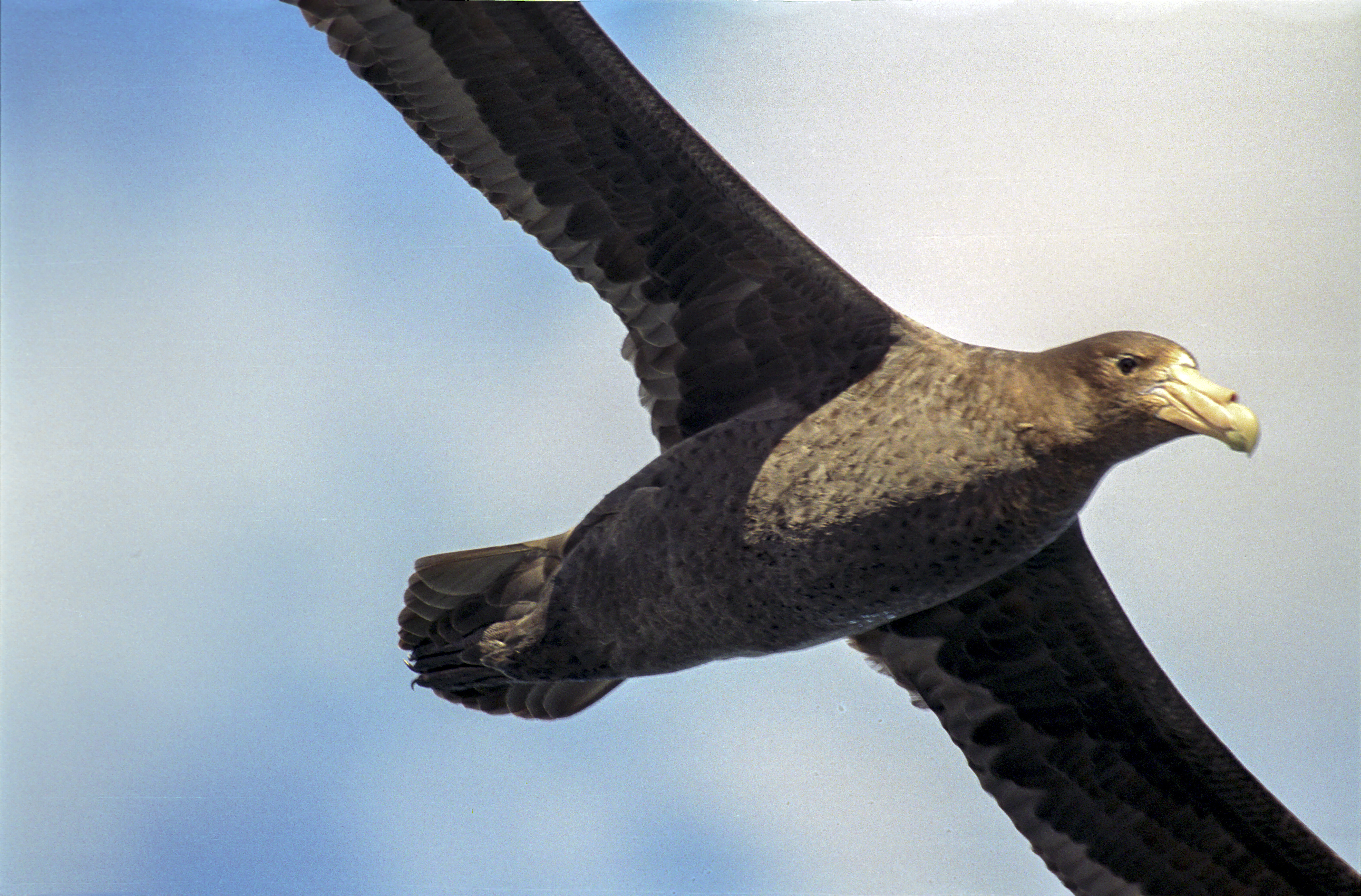 Giant petrel